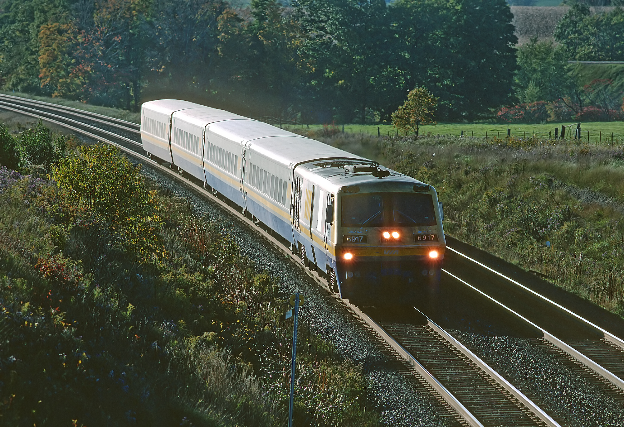 Via Rail LRC train near Newtonville